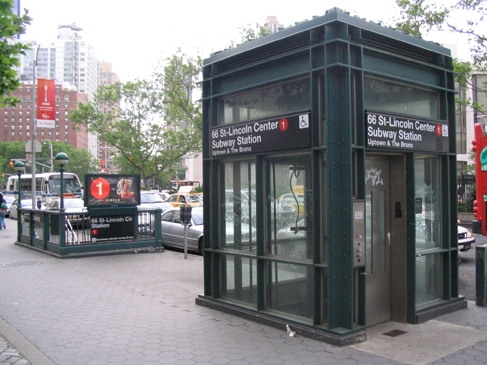 Looking south at NYC Subway: 66th St./Lincoln Center Station. May 2005. See Image:W66 IRT Fare jeh.JPG for the bottom of the staircase.